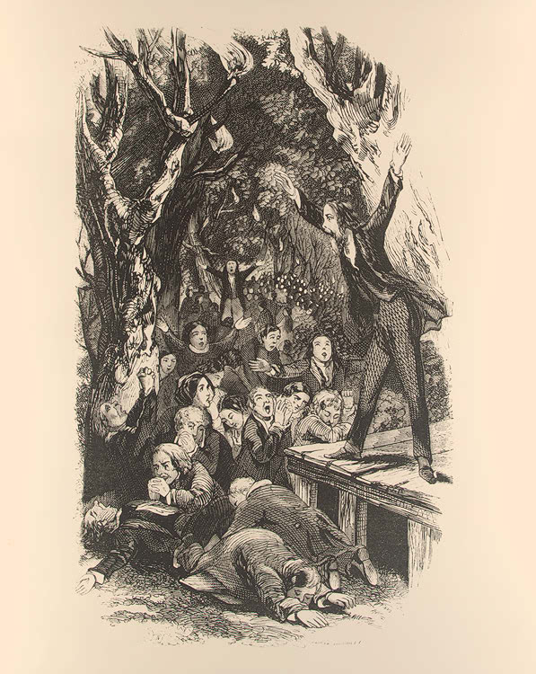 Lorenzo Dow and the Jerking Exercise. Engraving by Lossing-Barrett, from Samuel G. Goodrich, Recollections of a Lifetime. New York: 1856. General Collections, Library of Congress (195)